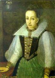 Portrait of Elizabeth Báthory (1560-1614)